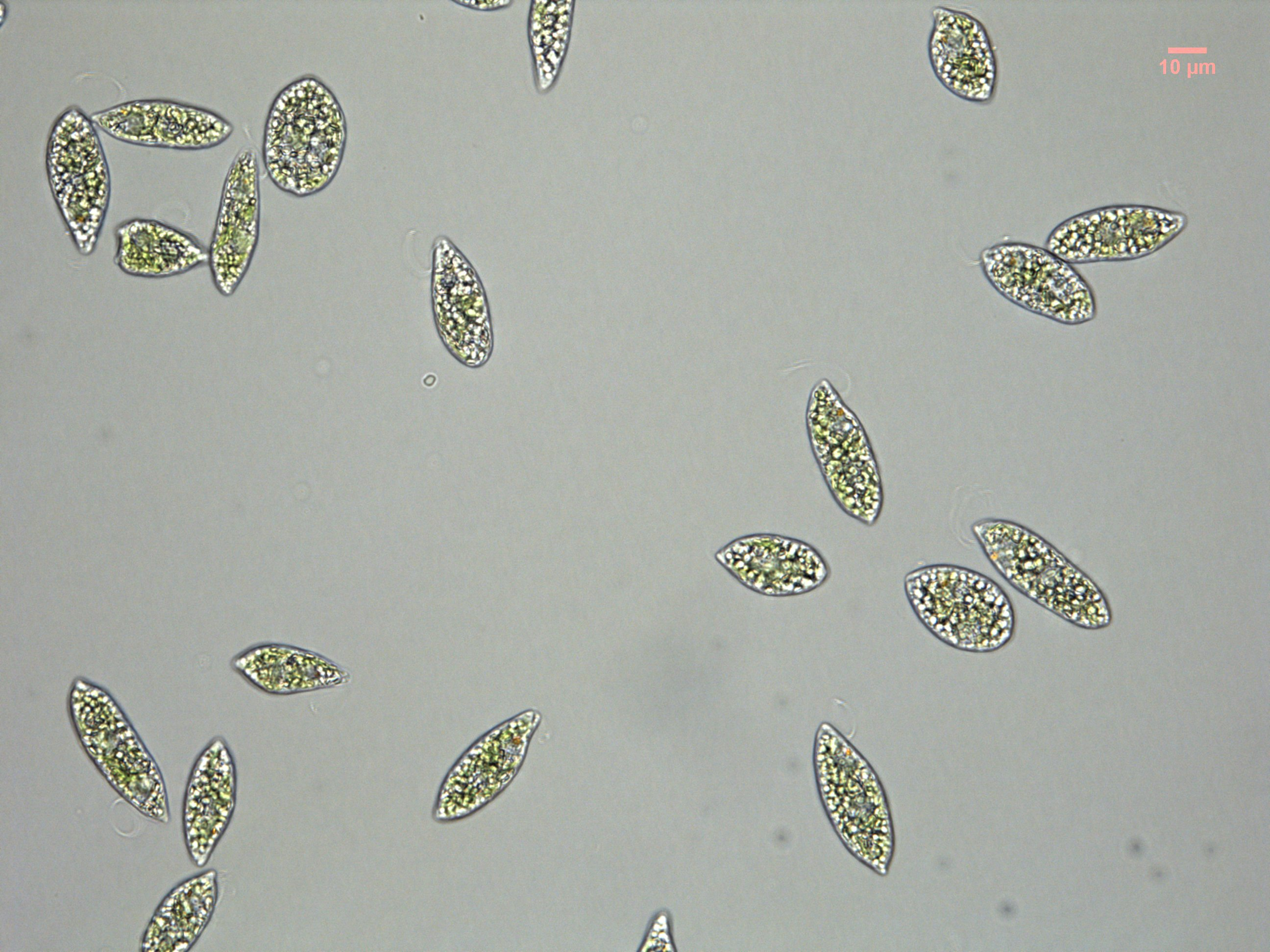 This is an image of several Euglena gracilis cells taken using light microscopy.